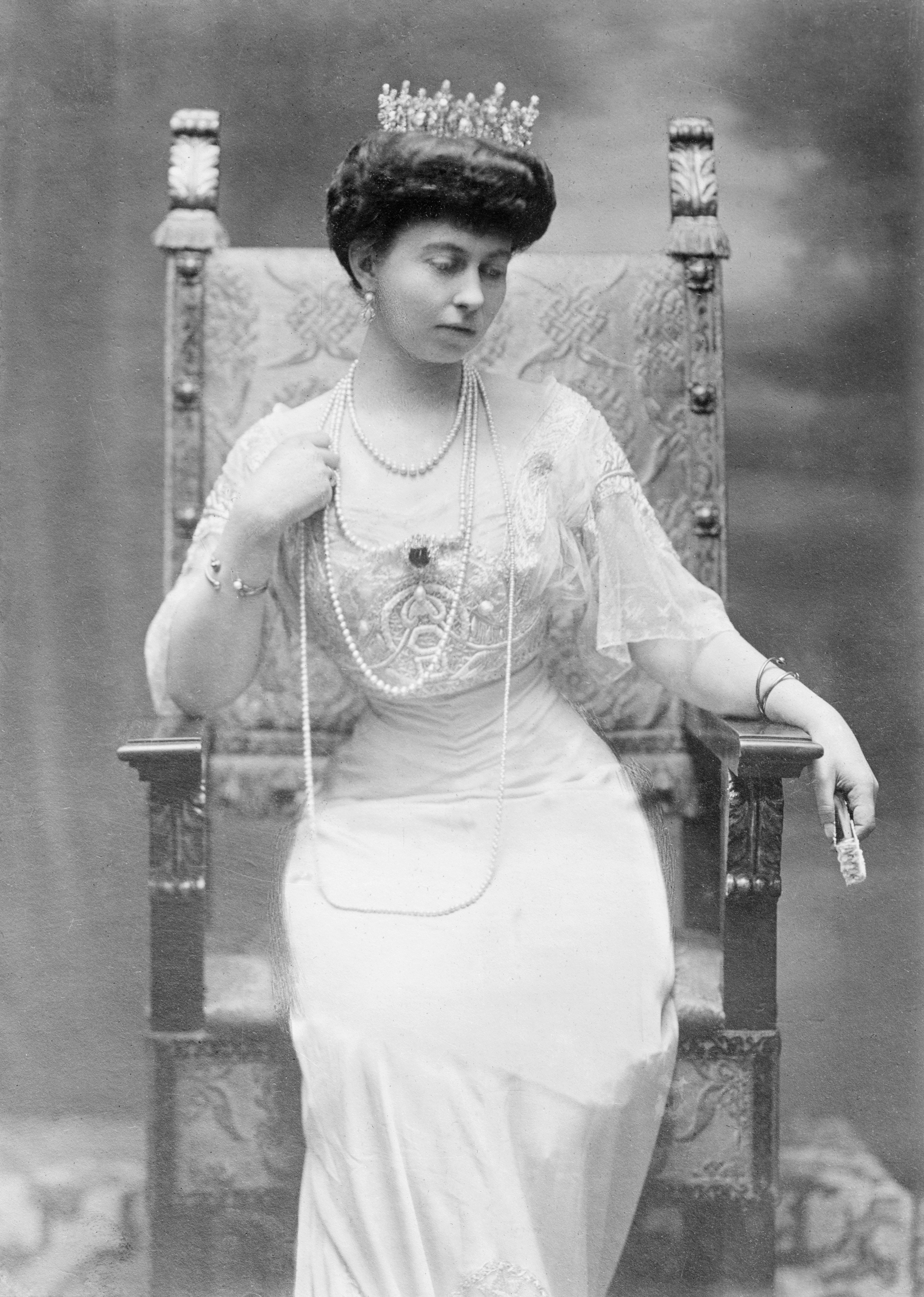 Queen Sophie of Greece (1870–1932), née Princess of Prussia.